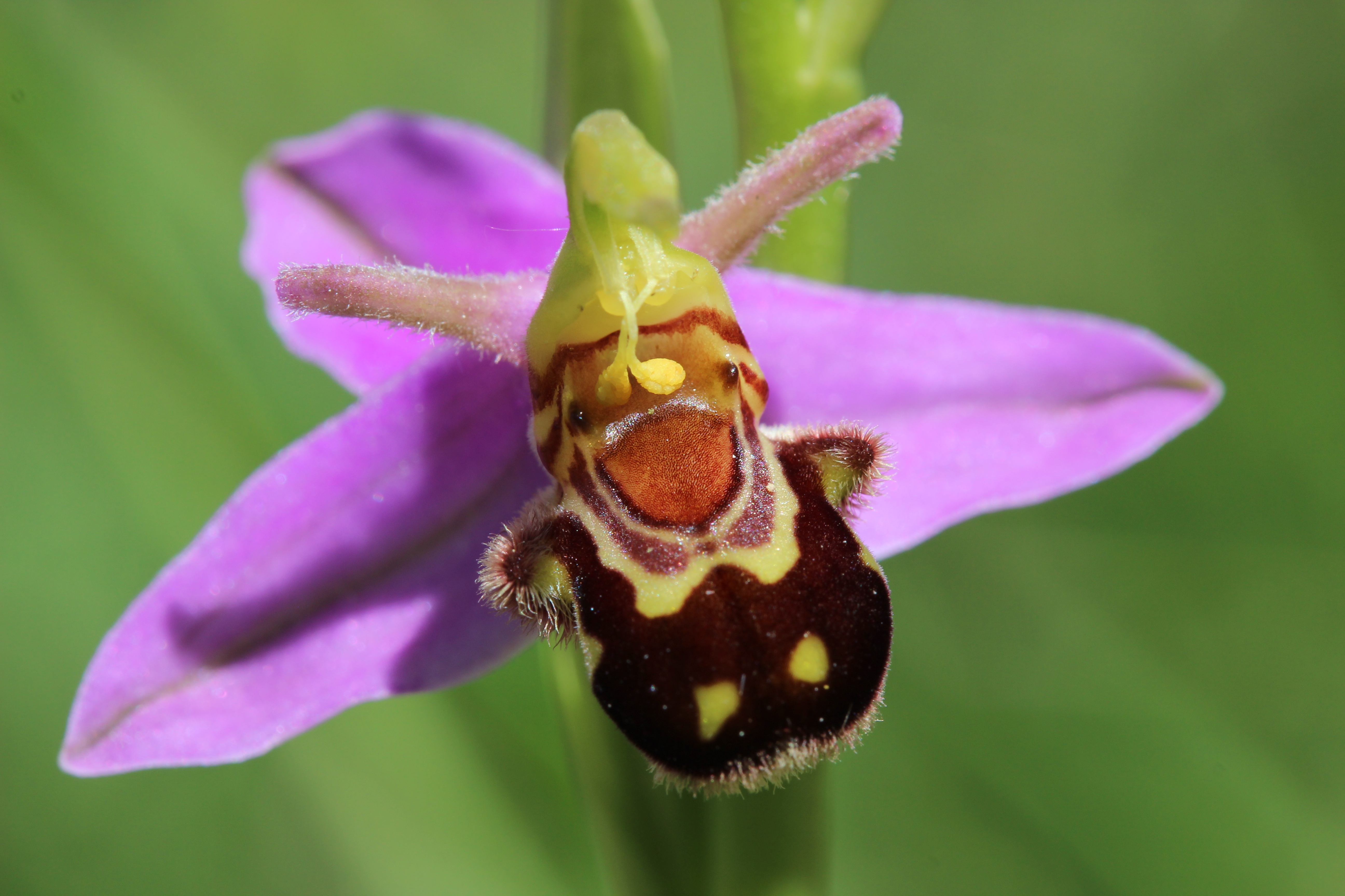 Bee Orchid - Ophrys apifera